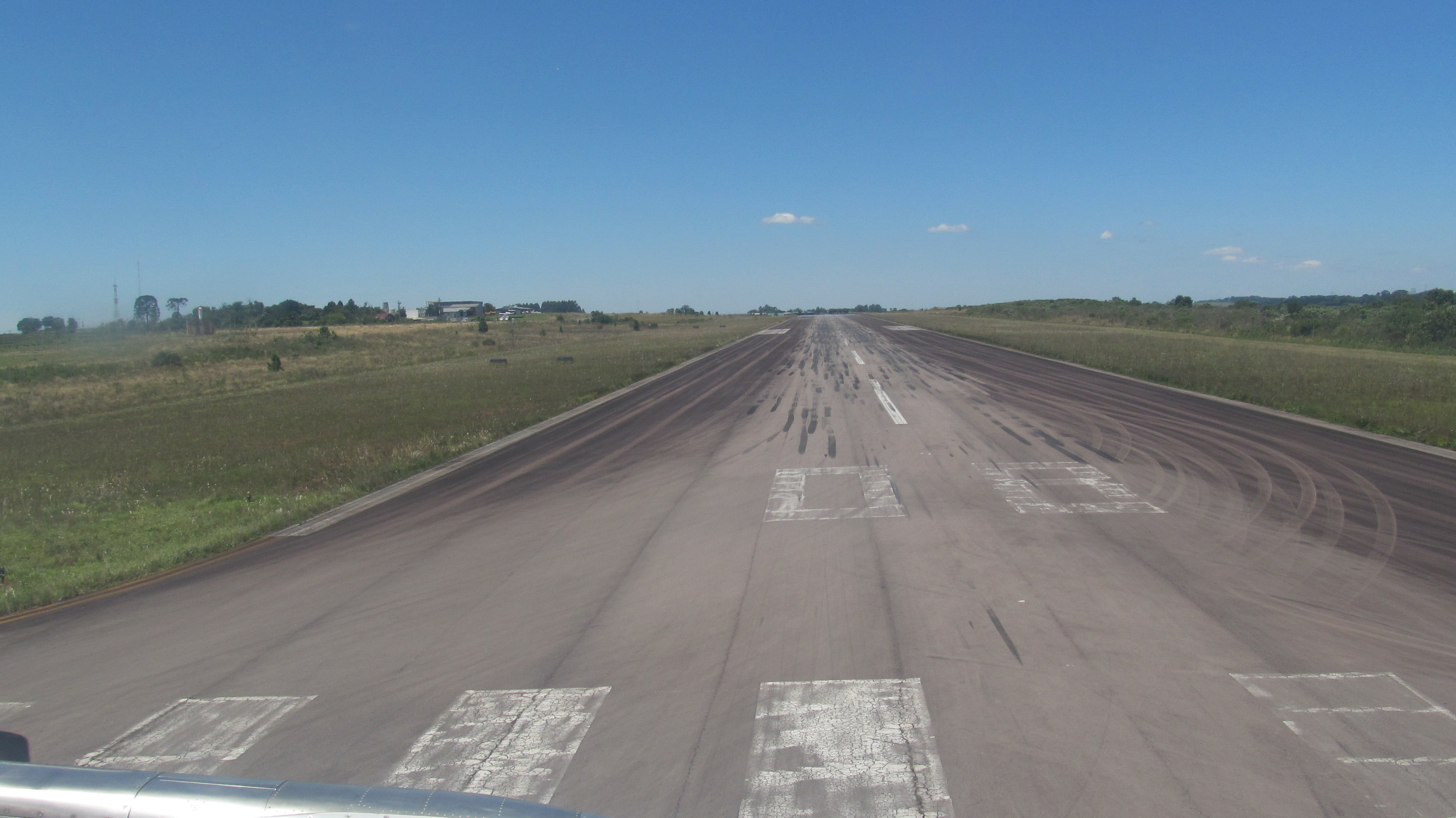 Passo Fundo Airport (PFB), Runway 08-26 1.700x30m, Rio Grande do Sul, Brazil